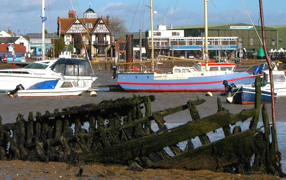 A view of Brightlingsea harbour